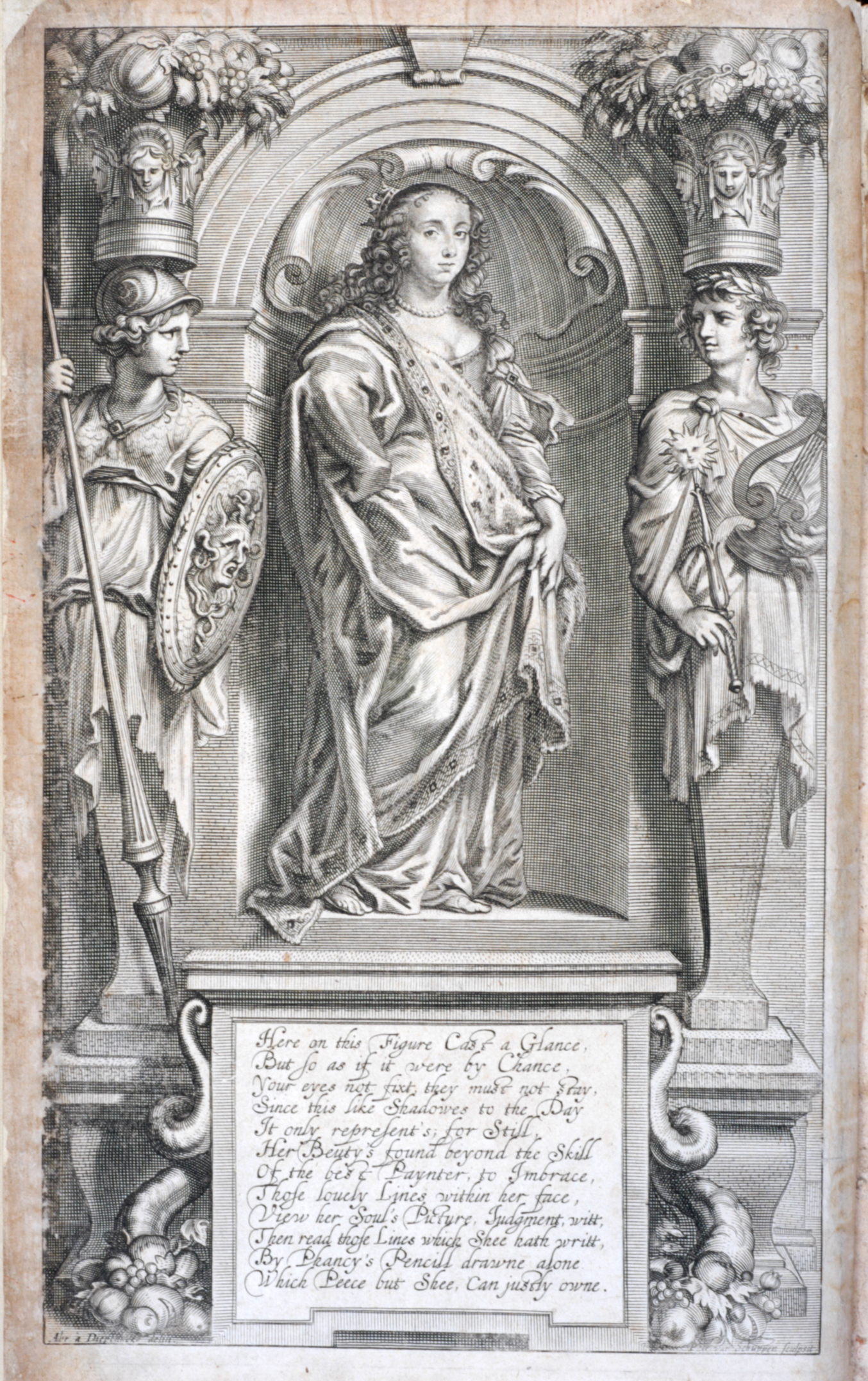 Frontispiece from "Grounds of natural philosophy : divided into thirteen parts: with an appendix containing five parts / written by the thrice noble, illustrious, and excellent princess, the Duchess of Newcastle." by Newcastle, Margaret Cavendish, Duchess of, 1624?-1674. London : A. Maxwell, 1668